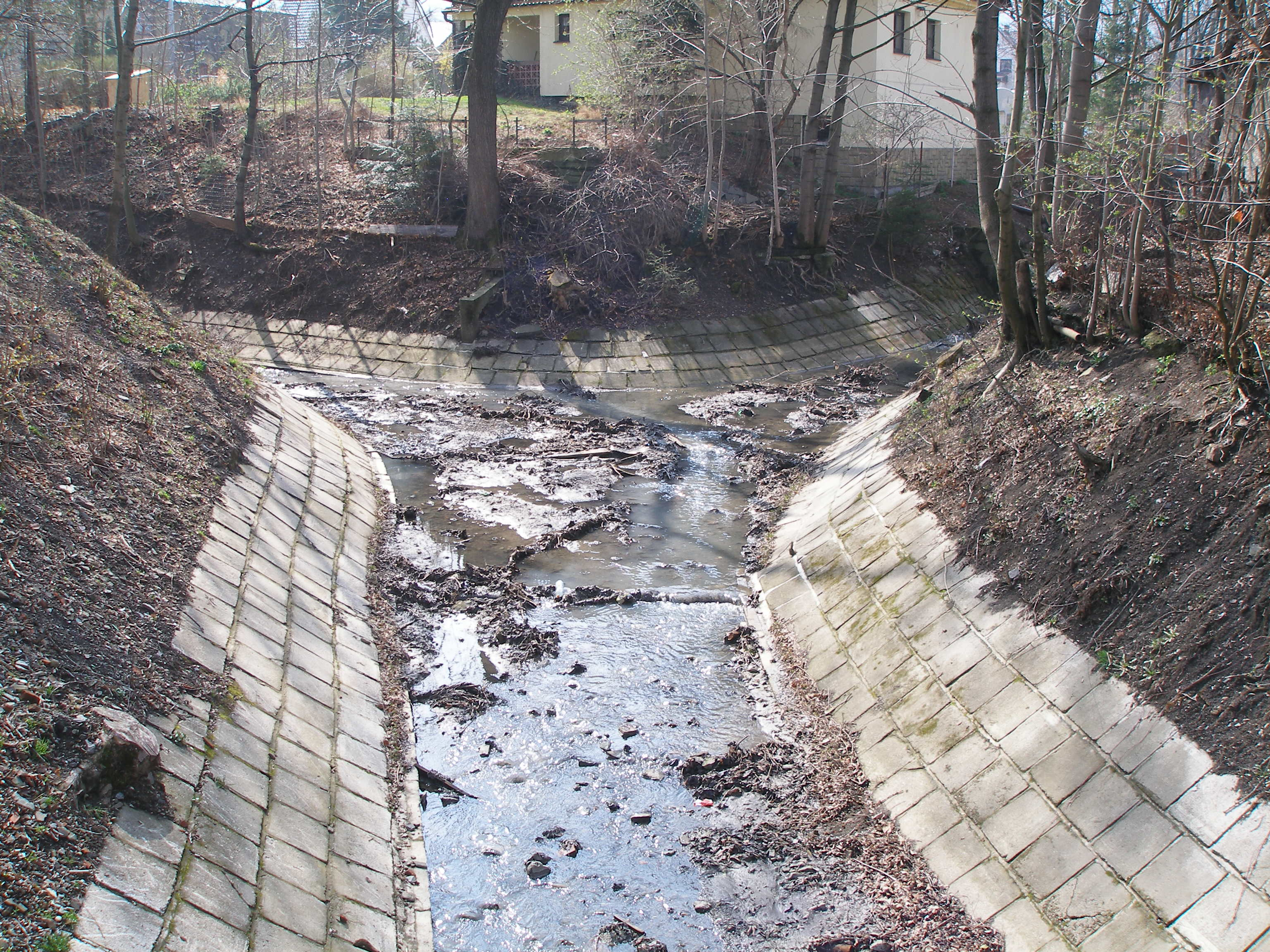 Confluence of Papakův potok (Papak's stream) and Králův potok (King's stream) in Mořkov. Left is Papakův potok (influent) Right is Králův potok (influent) Down is Papakův potok (outflow)